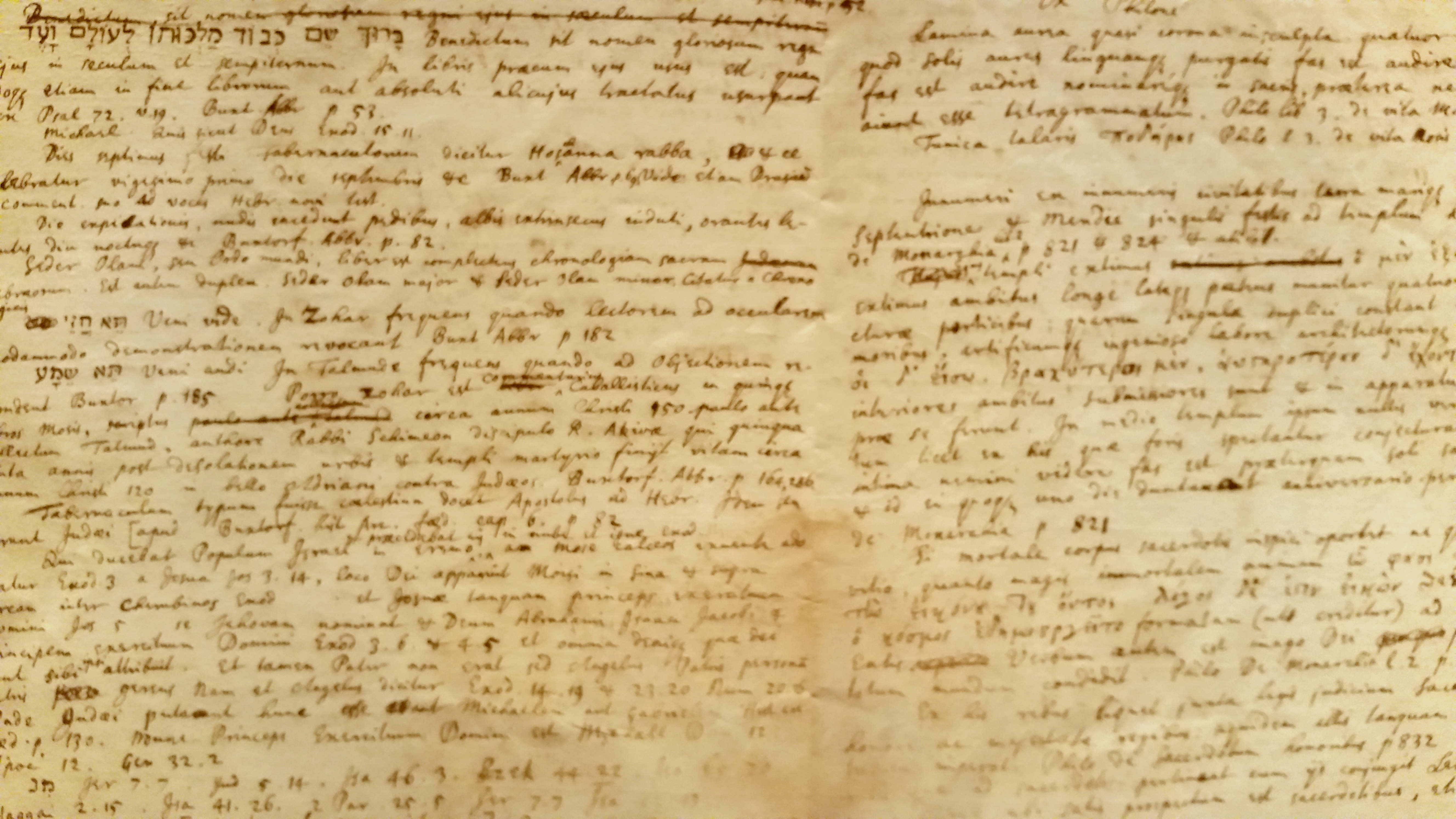 Fragments on the kingdoms of the European tribes, the Temple and the history of Jewish and Christian Churches by Newton, Isaac. Eמעךשמג 1675-1685)